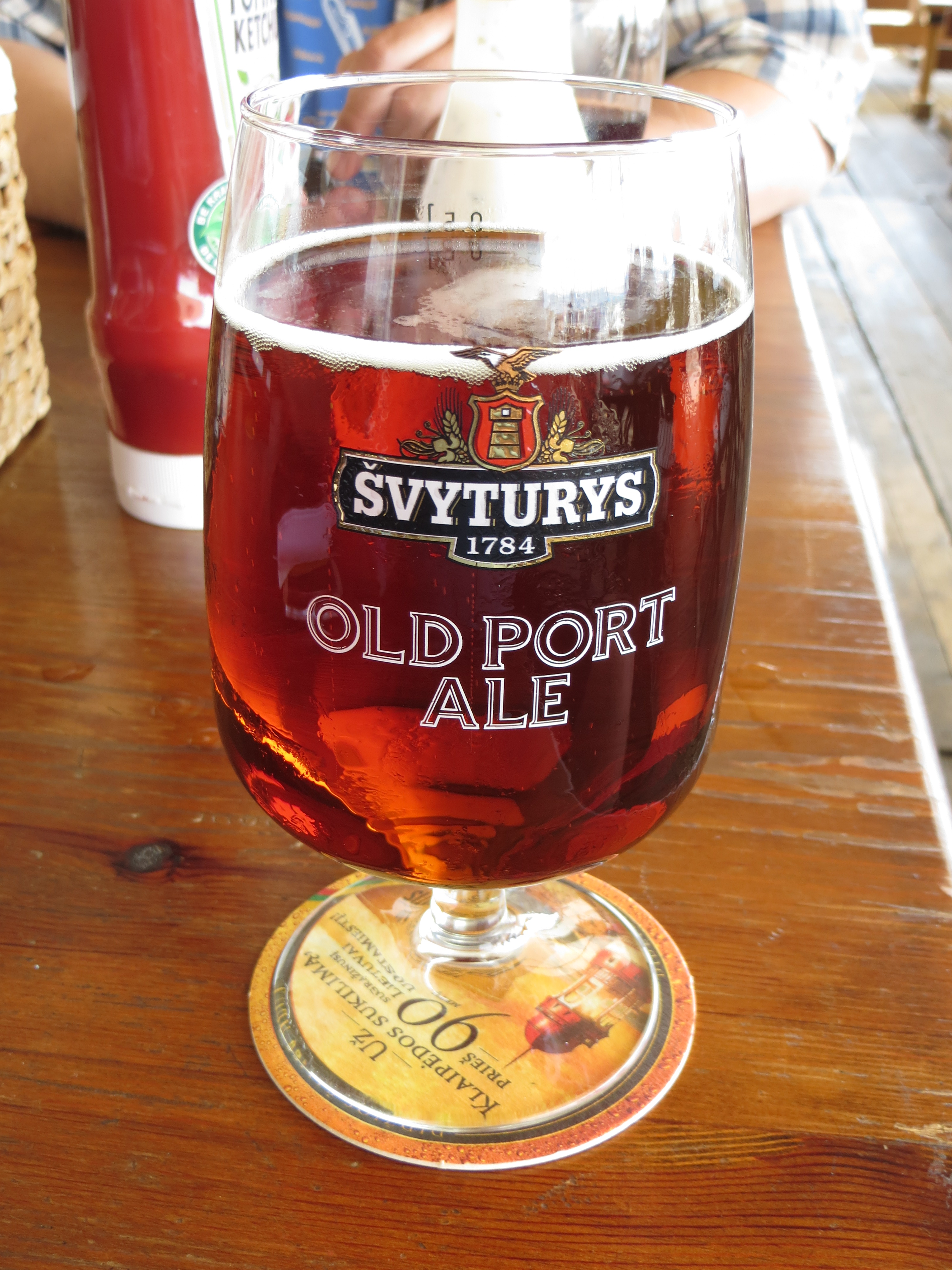 A glass of Old Port Ale from Svyturys (Carlsberg) in Klaipeda, Lithuania, on draft at Čili Pica in Nida, Lithuania. Svyturys Old Port Ale is a 5.5% abv Scottish ale. It poured a clear copper brown color with a thin head. It had a sweet wort aroma. Mouthfeel was medium heavy with a slight oily texture and a mild sour touch. Flavor had a rounded sweetness with hints of toffee. It had a crisp, slightly bitter finish. A nice, drinkable Scottish ale. As the date on this class indicates, Svyturys traces its roots back to 1784 when the merchant J. W. Reincke established a brewery in Memel in East Prussia, today known as Klaipėda in Lithuania, making it the second oldest brewery in Lithuania. Since then, the brewery’s emblem has been adorned with the sea eagle that is also found on the Reincke family’s coat of arms. The brewery was named Švyturys, Lithuanian for "the lighthouse", when it was rebuilt after World War II.